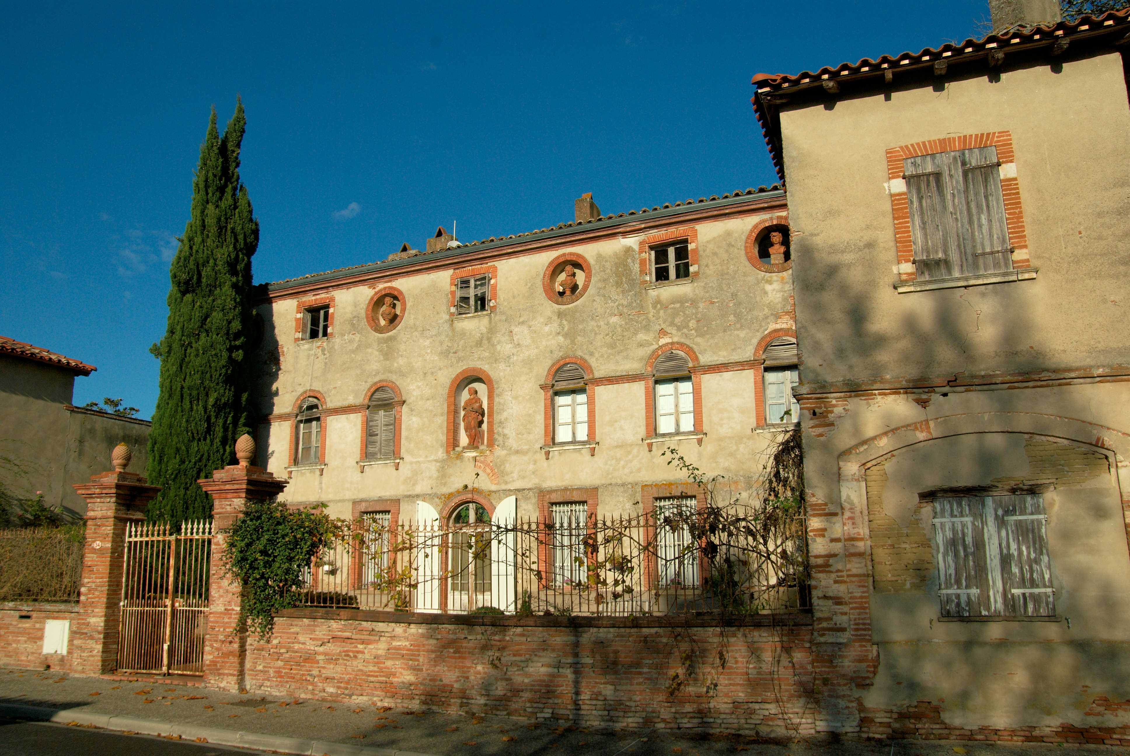 The house of heads : Old house in Auzeville-Tolosane (Haute-Garonne, France).